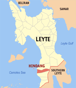 Map of Leyte showing the location of Hindang